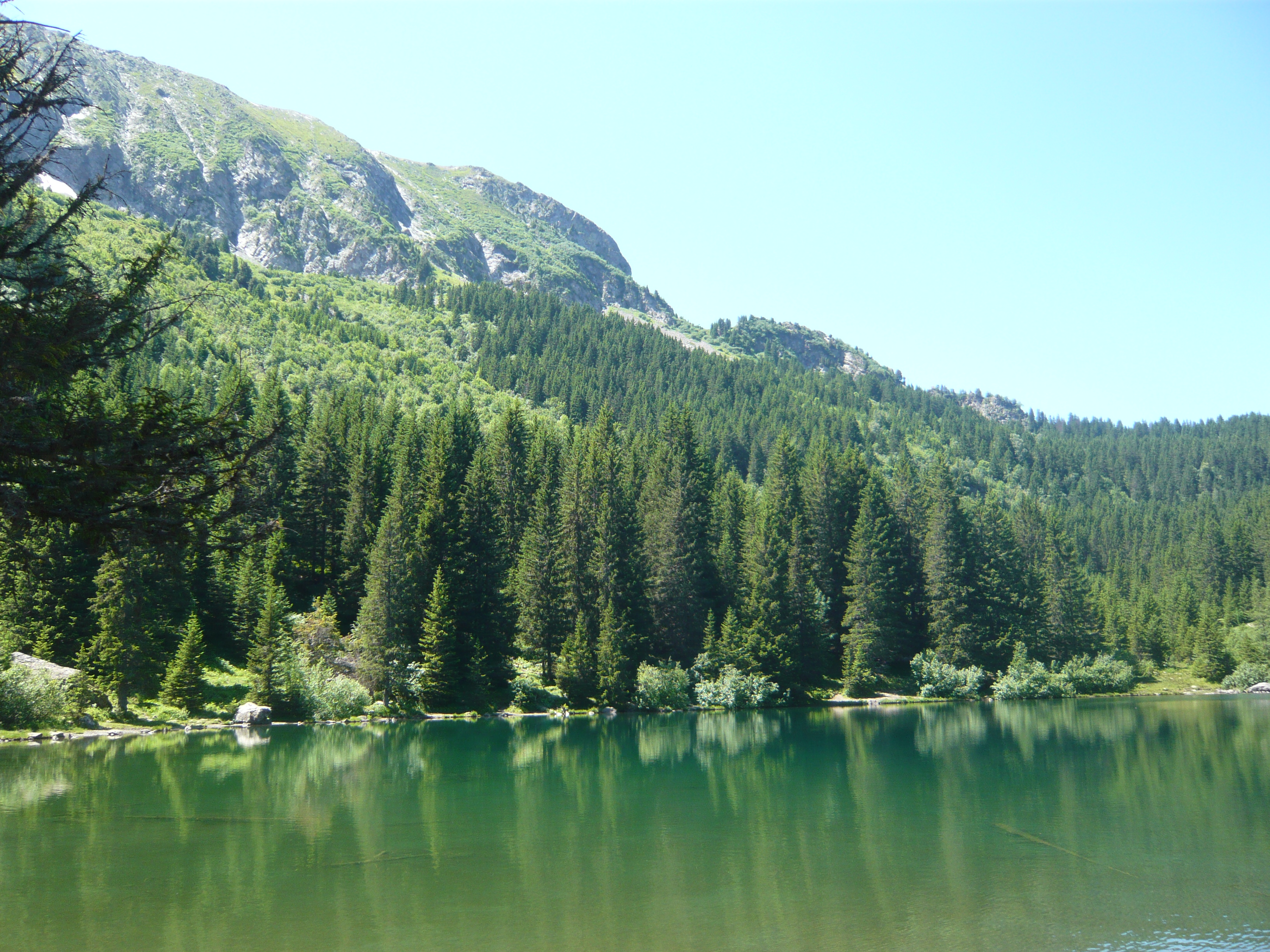 View of the Lake Poursollet (Lac du Poursollet). La Morte, Isère department, France. July 2008.